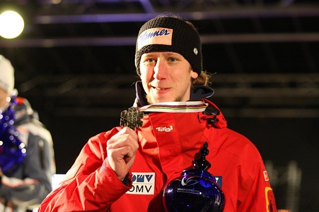 Martin Koch with bronze medal of the FIS Ski-Flying World Championships 2012